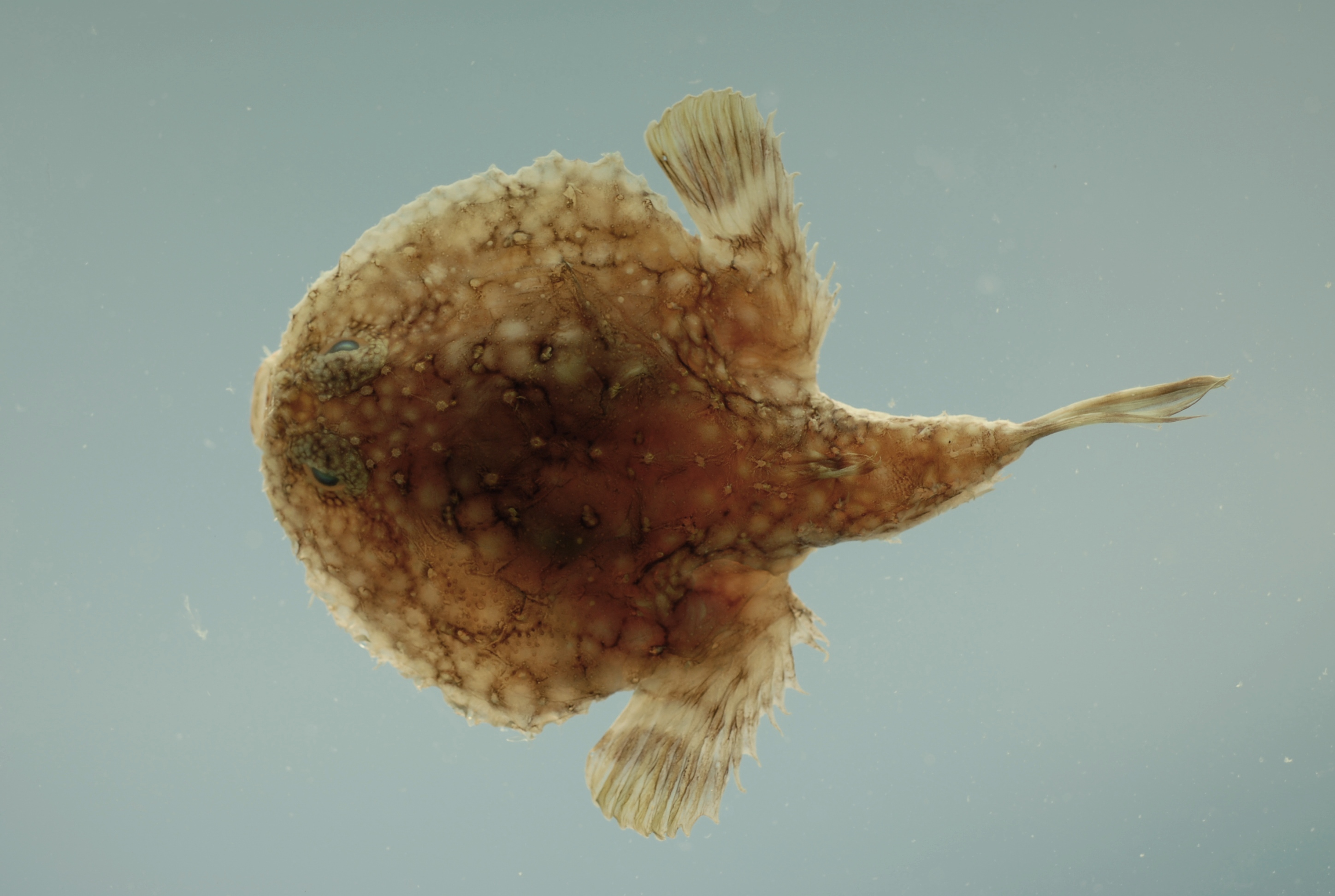 Pancake batfish ( Halieutichthys aculeatus ). Gulf of Mexico.